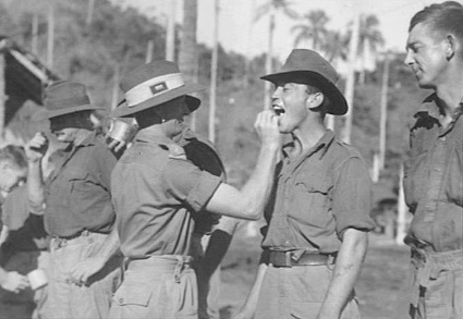 Lieutenant J.J. Garrick SX23142 , 2/6 Cavalry (Commando) Regiment places a tablet in the mouth of Trooper G. E. Martin TX9153 during the atebrin parade. Although resented by many of the troops, these parades helped dramatically reduce the incidence of malaria.